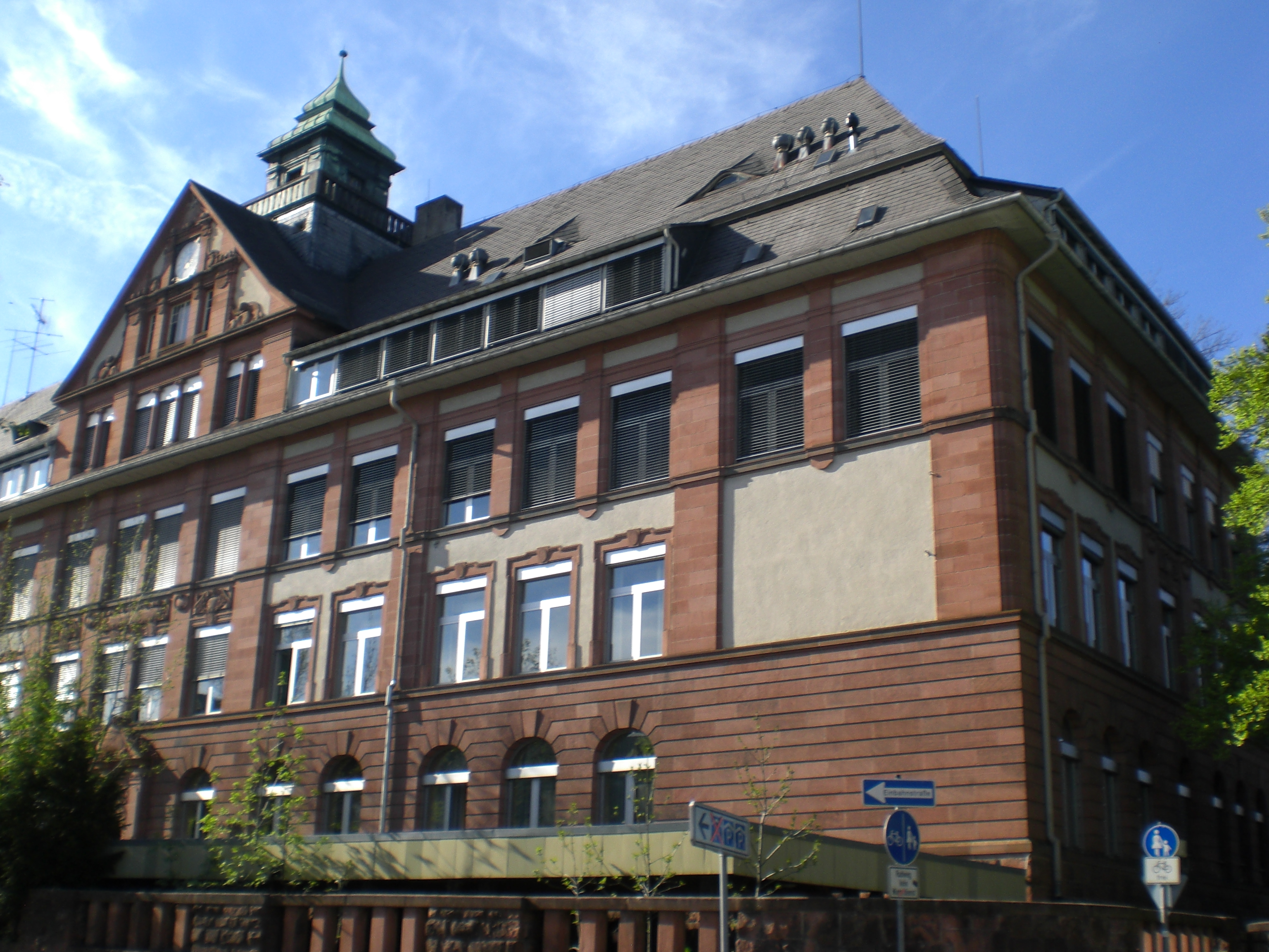 The old building of a school in Villingen.